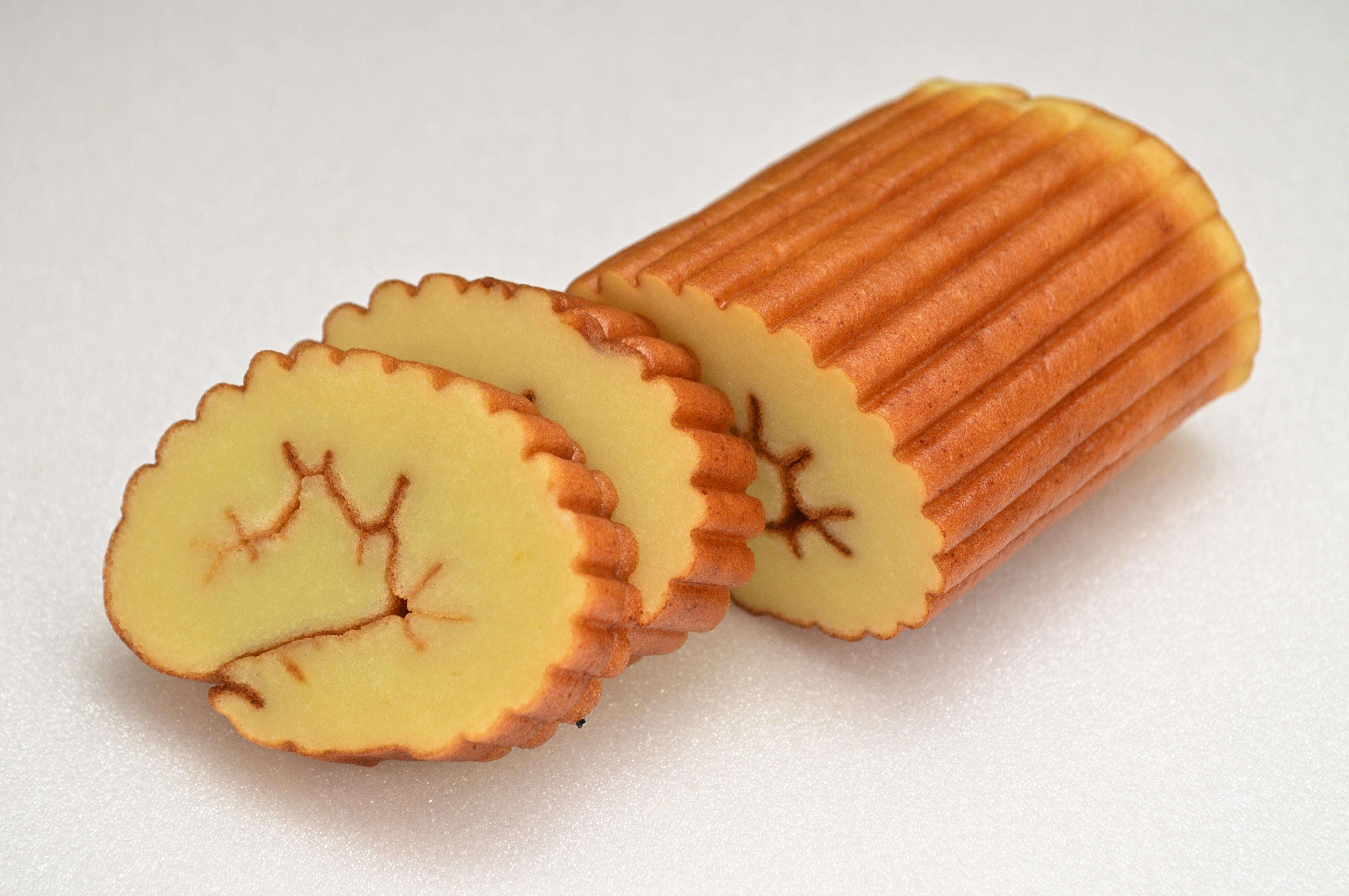 Typical sample of Datemaki